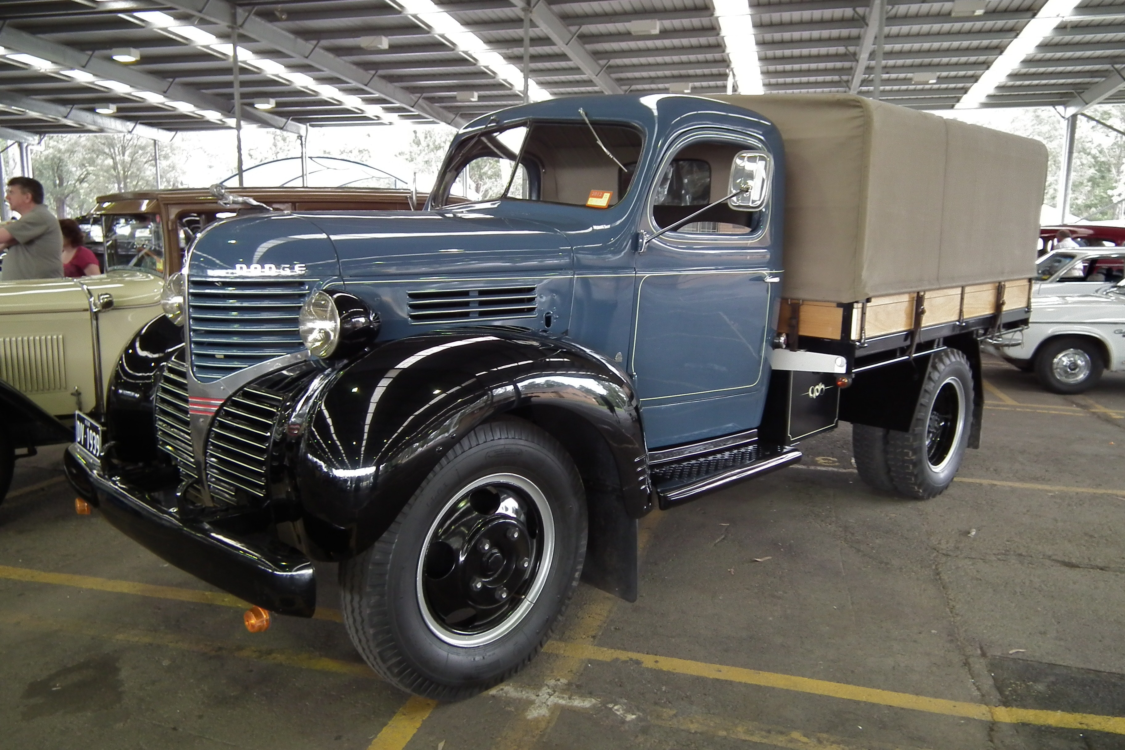 1939 Dodge TE32 table top. Bodywork by T J Richards. Taken at the 2011 New South Wales All Chrysler Day, held at Fairfield Showground, Prairiewood, Sydney.